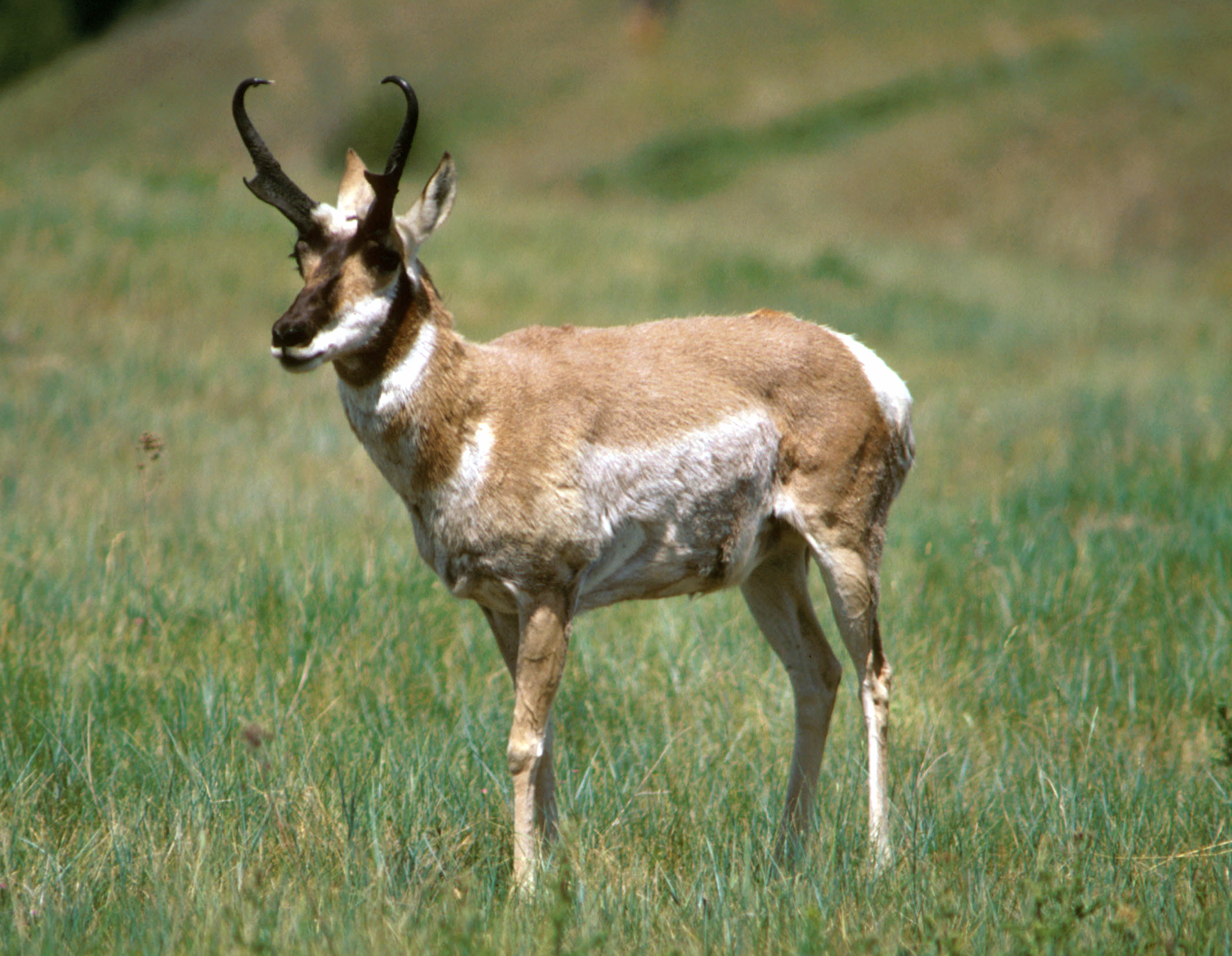 Pronghorn - male